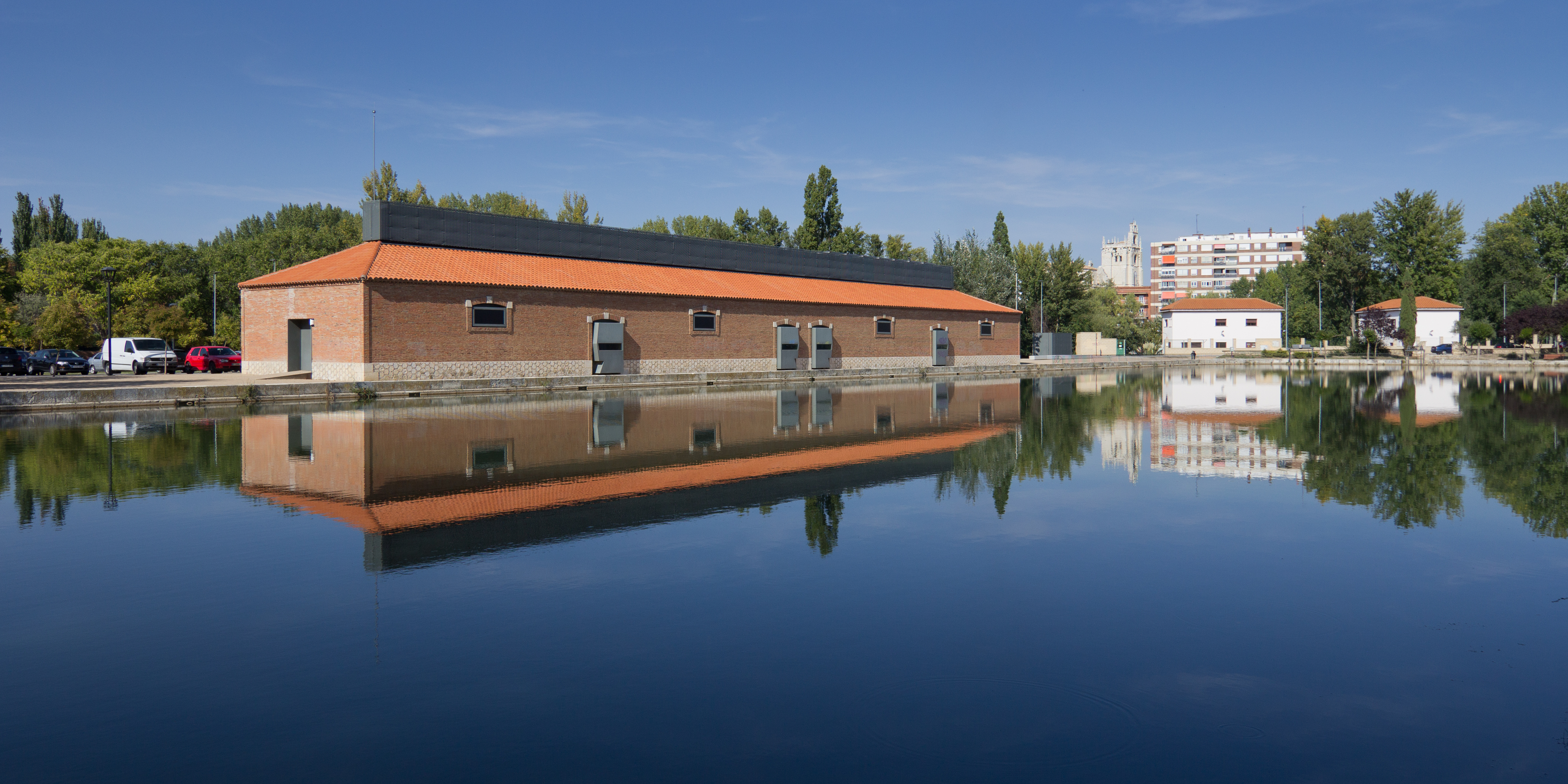 Docks of the Channel of Castile in Palencia, Castile and León, Spain.